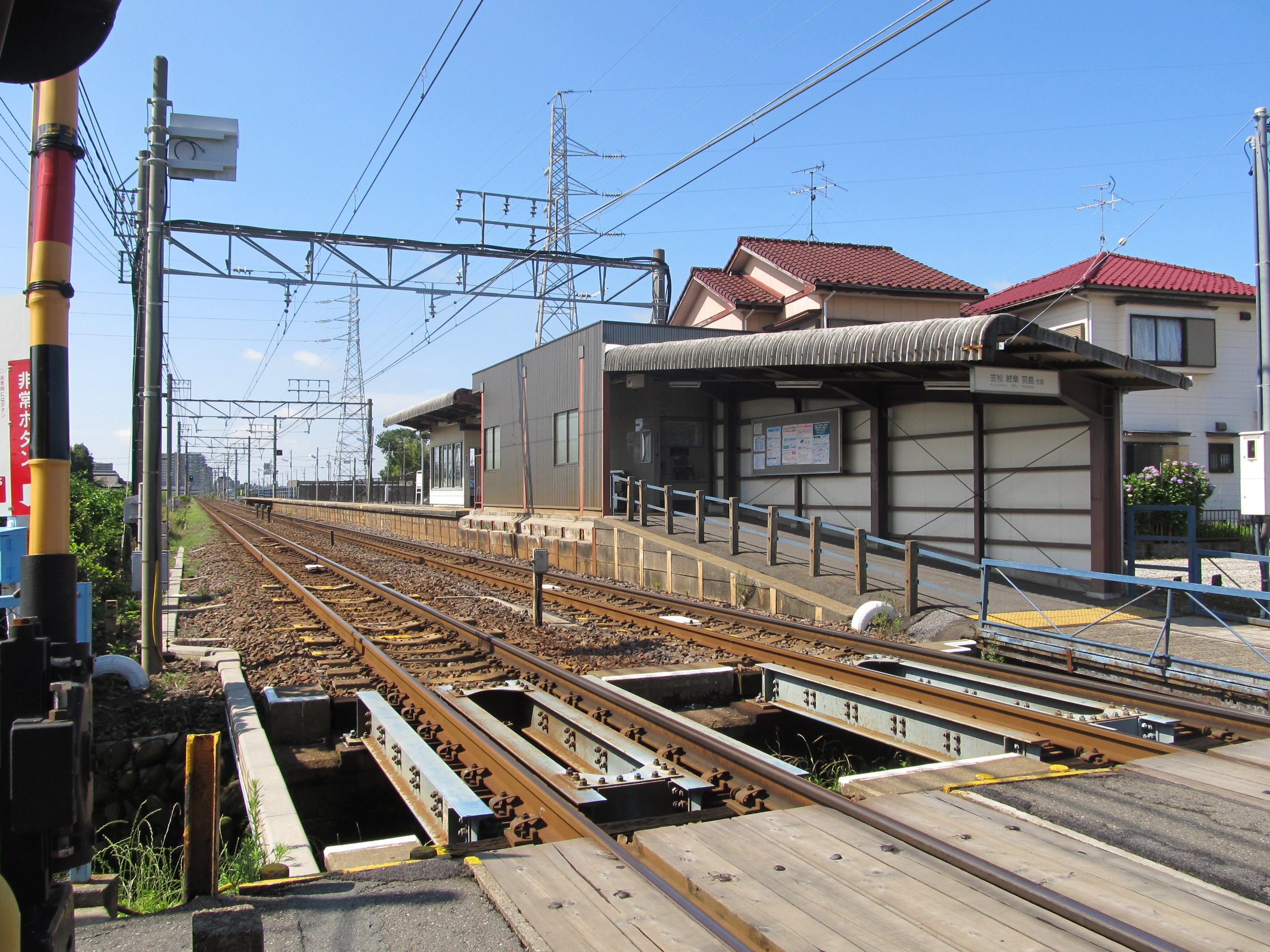 Nagoya Railroad Nagoya Main Line Shima-ujinaga Station Platform and Building (for Gifu)